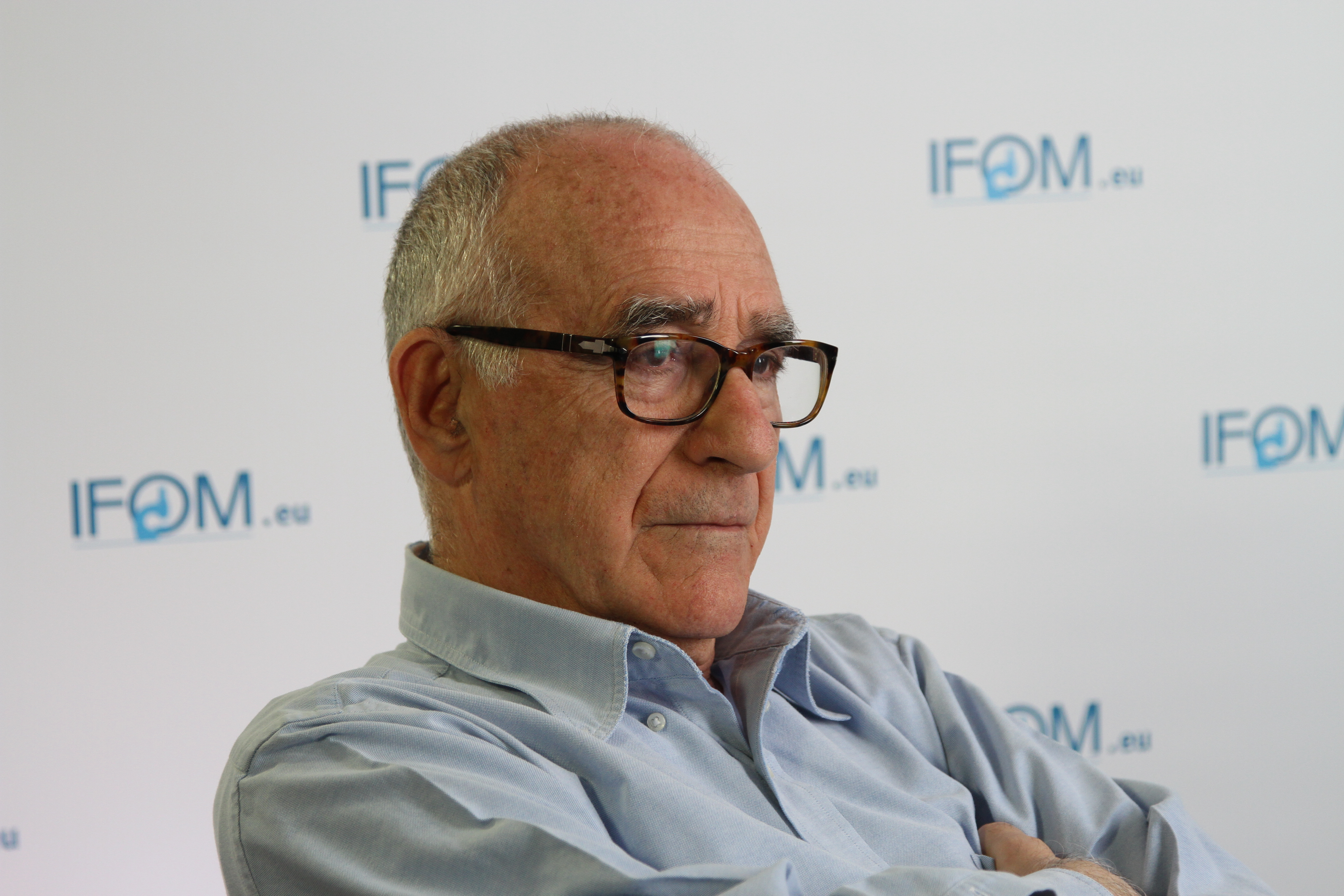 Francesco Blasi during a Conference in Milan